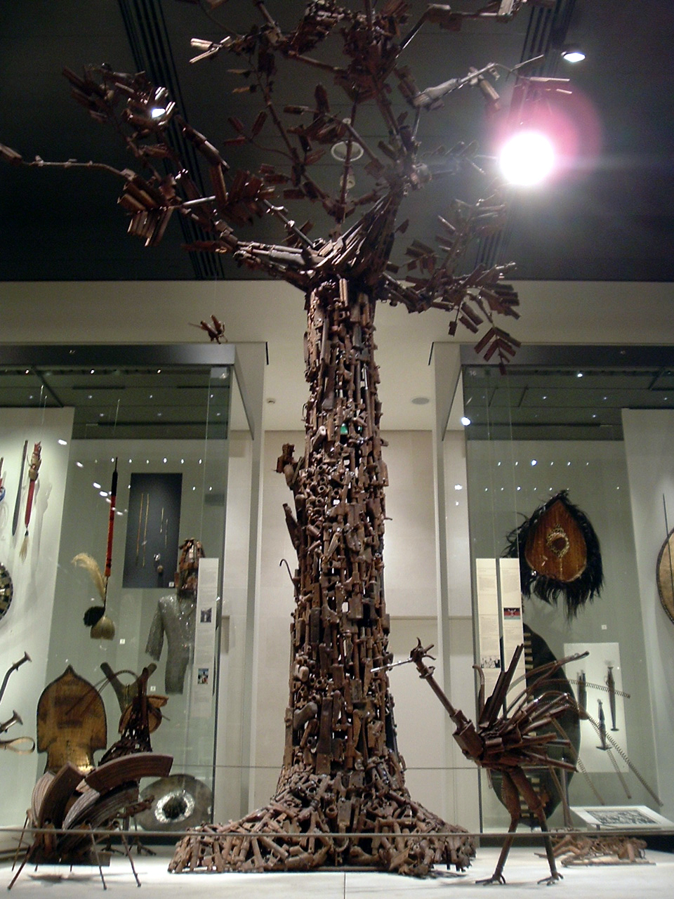 The "Tree of Life" project in Mozambique created sculptures from parts of firearms that had been traded for tools see Throne of Weapons for details.